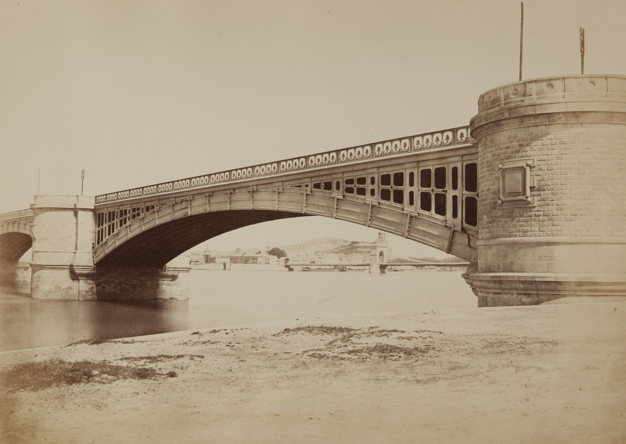 Book Title: From the album Paris to Marseilles Artist: Edouard-Denis Baldus Artist Bio: French, b. Germany, 1815 - 1882 Creation Date: c. 1865 Process: albumen print Credit Line: Gift of Stephen White Accession Number: 2005.024.007